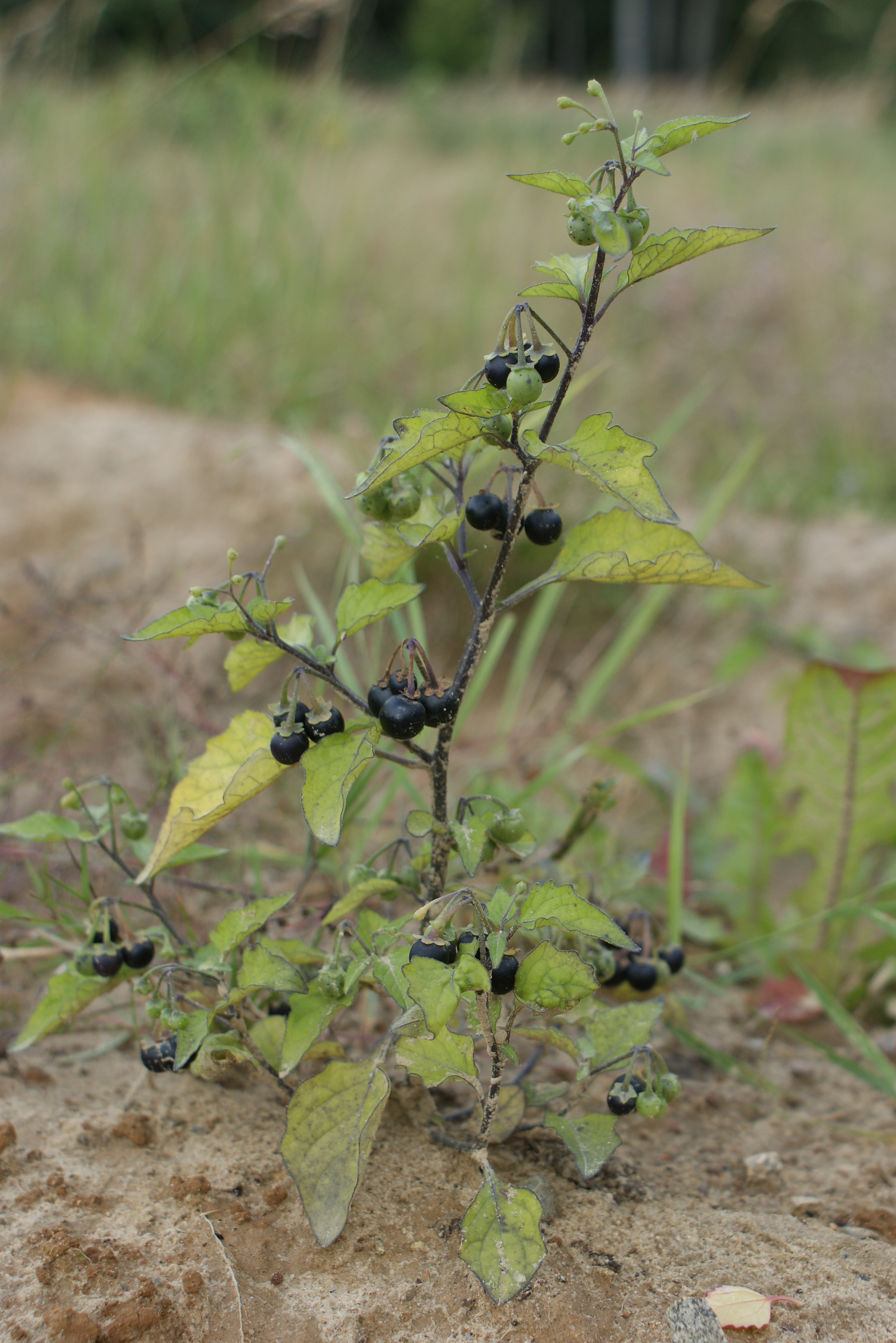 Solanum nigrum